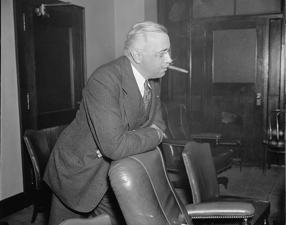 Norman S. Case, smokes a stogie during a meeting of the Federal Communications Commission.